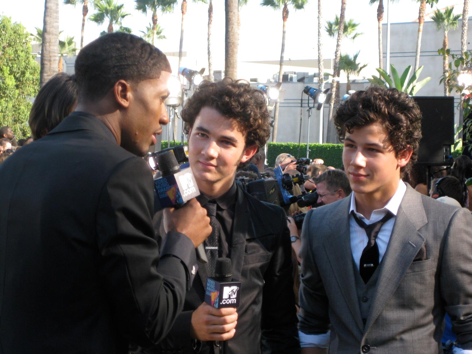 Jonas Brothers at the 2008 MTV Video Music Awards.